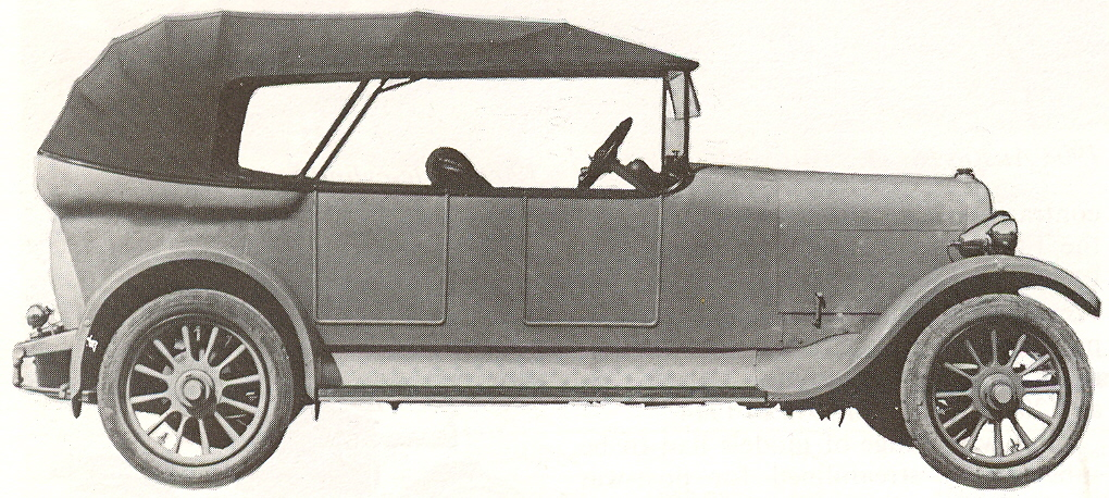 1920 Austin 20 tourer